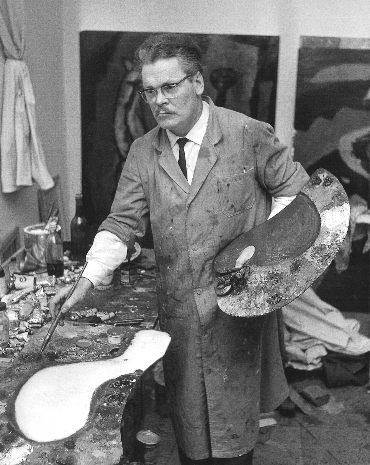 Photograph of the Finnish painter Erik Enroth (1917–1975) at his studio.